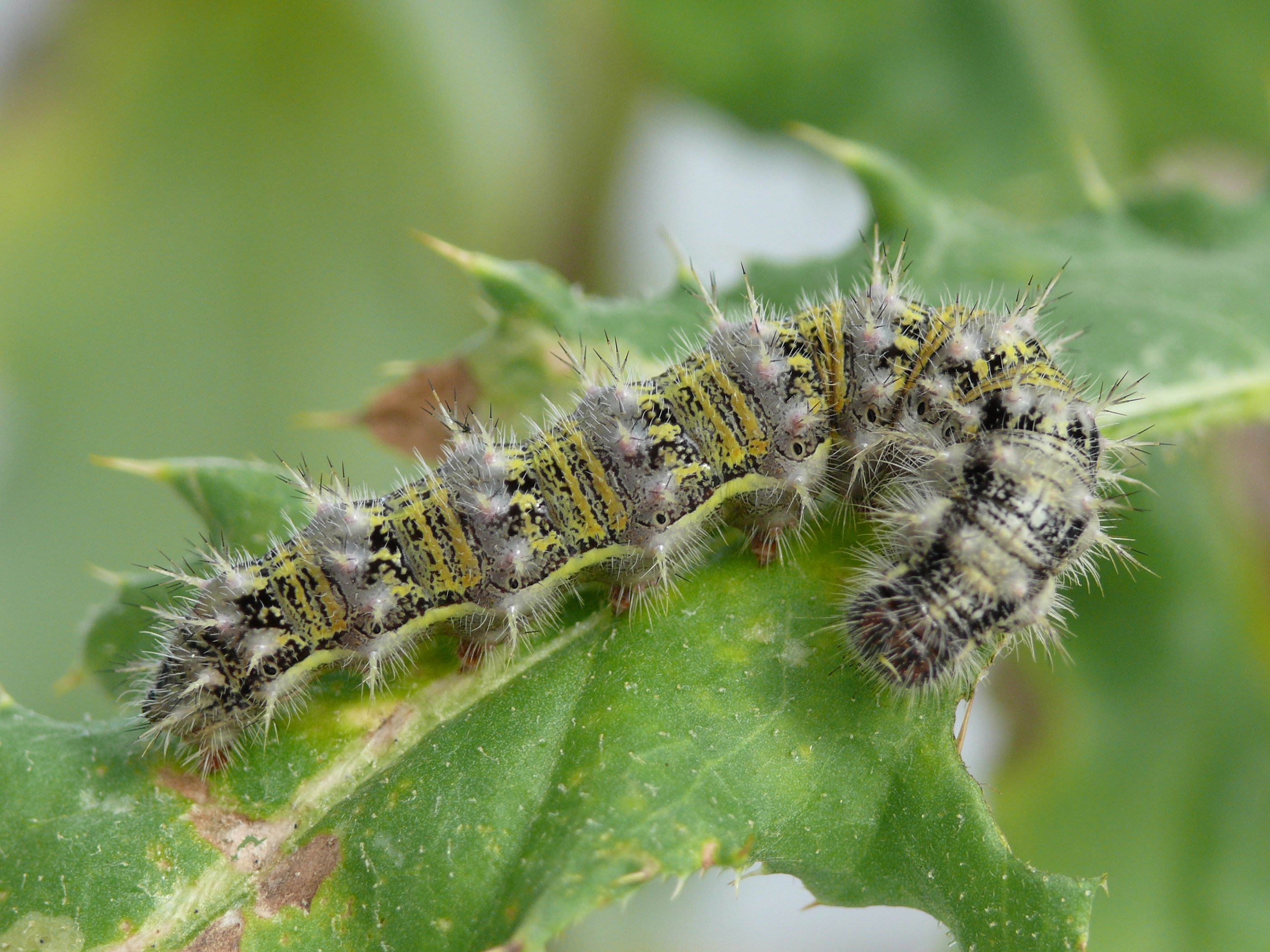 Caterpillar of Painted Lady, last stage before pupation